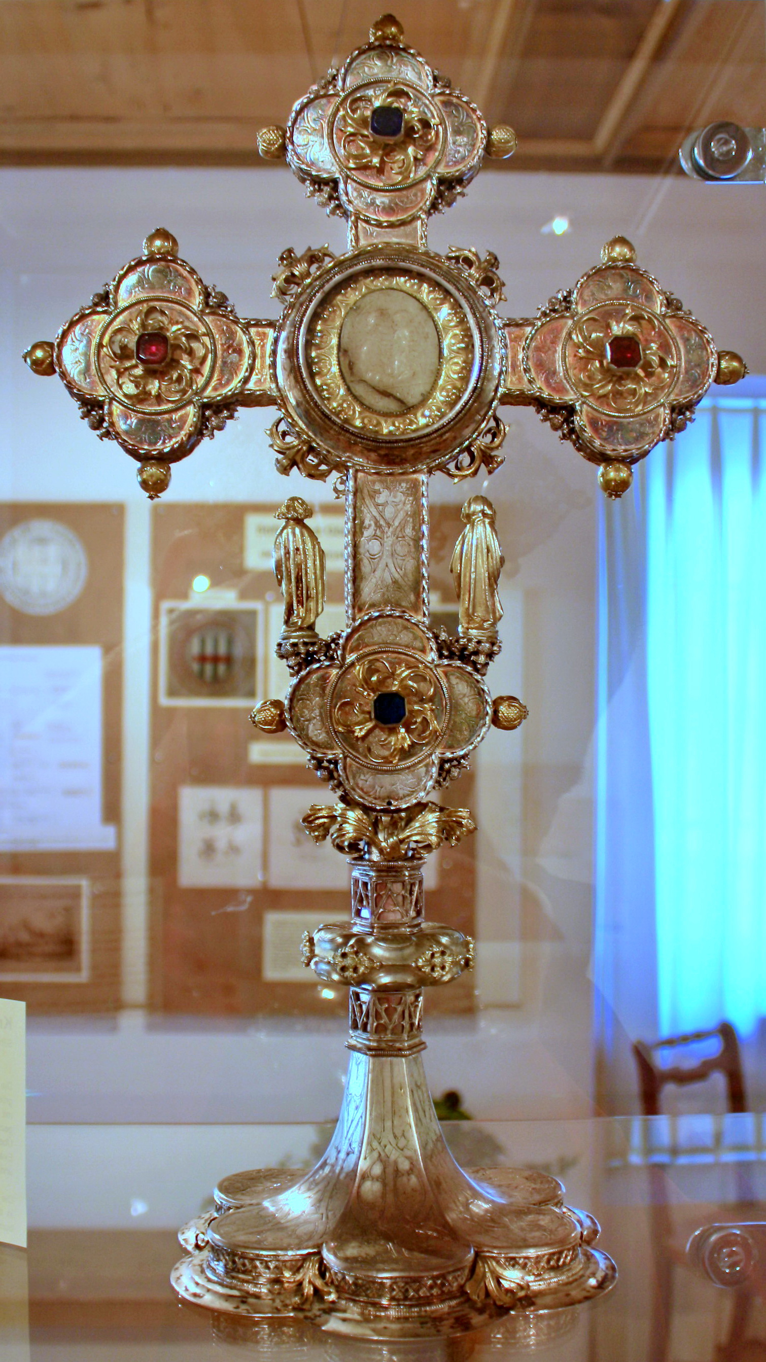 Rüti (ZH) : Treasury of the former Premonstratensian Abbey, Ortsmuseum (museum of local history) in the Amthaus Rüti (Bailiff's house).